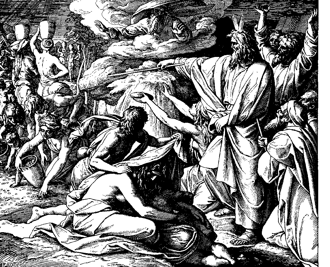 Woodcut for "Die Bibel in Bildern", 1860.